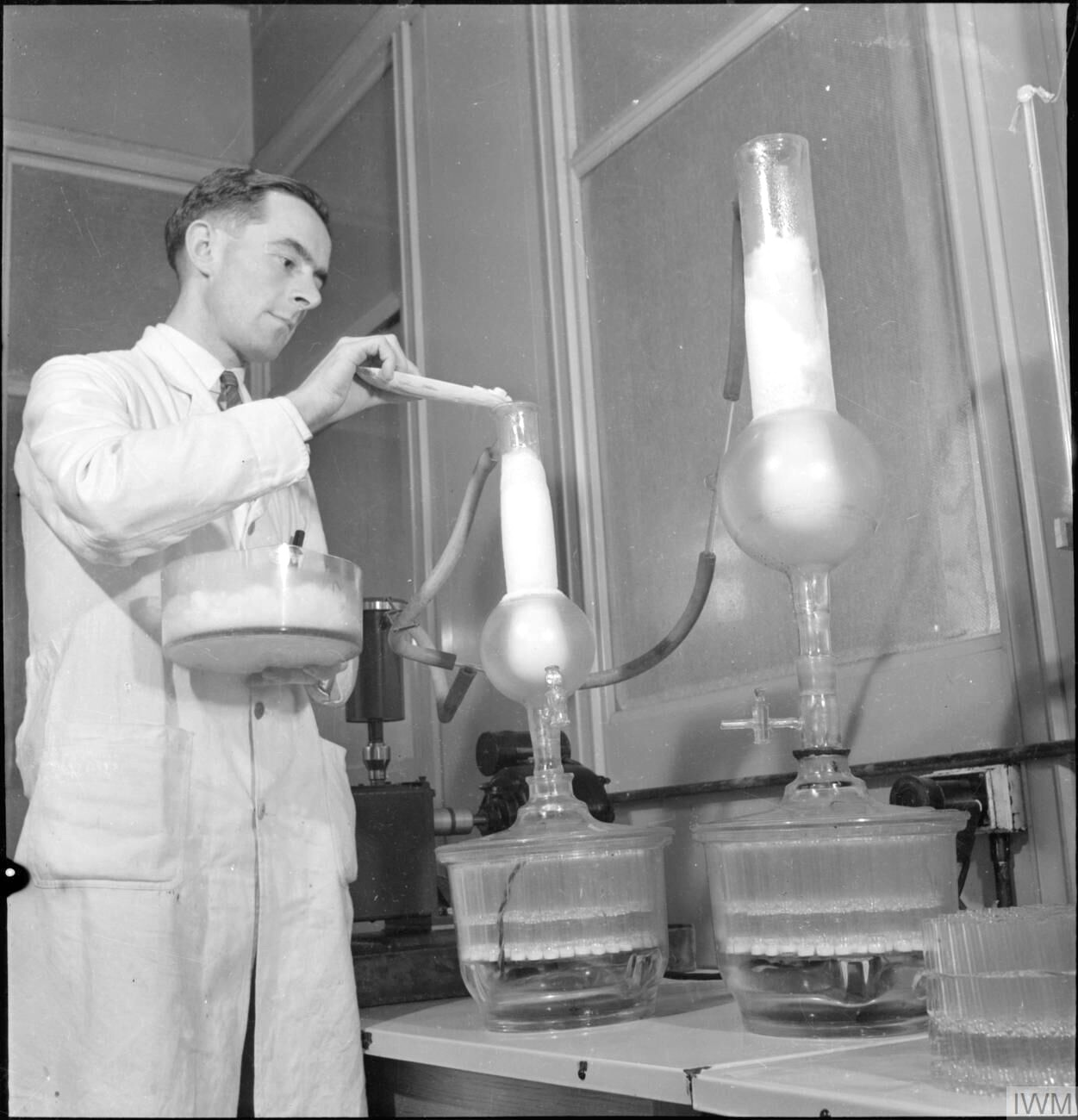 Penicillin Past, Present and Future- the Development and Production of Penicillin, England, 1943 A laboratory worker measures purified penicillin into ampoules or bottles. It is then freeze-dried and the ice evaporated off under vacuum. At the end of this process, a powder is left behind: this is the precious penicillin itself.